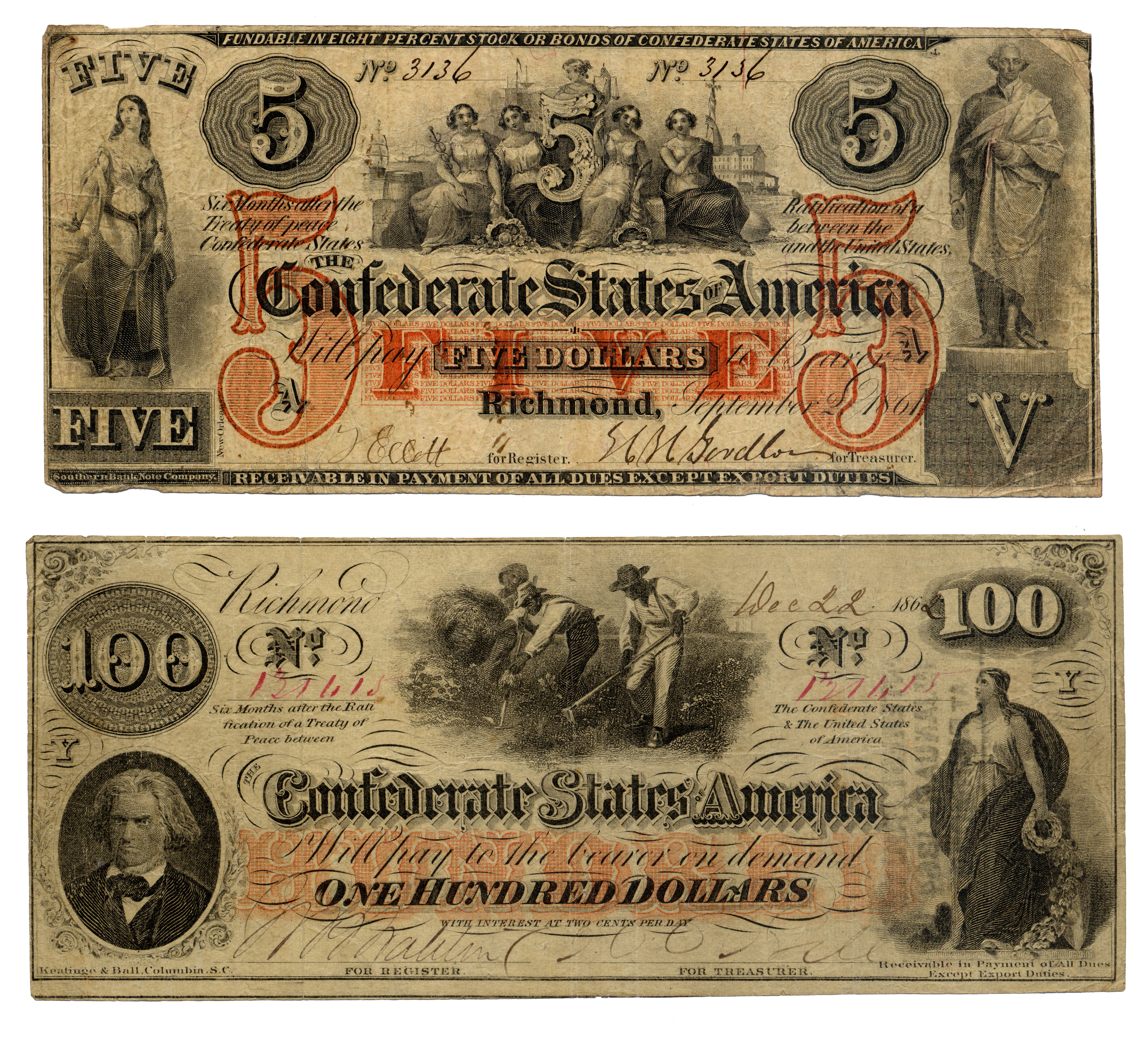 A five and one hundred dollar Confederate States of America interest bearing banknote. These notes were authorized by the Confederate Congress during the Civil War (1861–1865). The Union banknotes had green printing on the back and were known as greenbacks. The backs of Confederate banknotes were blank and in circulation became a dirty gray. They became known as "gray-backs". The five dollar banknote shows Minerva, the Goddess of War on the left and George Washington the right. The five maidens in the center represent Commerce, Agriculture, Justice, Liberty and Industry. This note was issued on September 2, 1861 and 58,860 were printed by the Southern Bank Note Company. This was the New Orleans branch of the American Bank Note Company of New York. The bill is 7.125 by 3.125 inches (180 mm by 79 mm) Collectors refer to this note as a Type-31. [1] The one hundred dollar banknote shows slaves hoeing cotton in the center with John C. Calhoun on the left and Columbia on the right. This note is dated December 22, 1862. Over 670,000 of these notes were issued from August, 1862 to January, 1863. [2] The bill is 7.375 by 3.125 inches (187 mm by 79 mm) and is thinner than a modern US dollar. Collectors refer to this note as a Type-41. This image was included in the 2011 edition of A Short History of the Civil War by James L Stokesbury. Published by Harper, ISBN 978-0-06-206478-3.